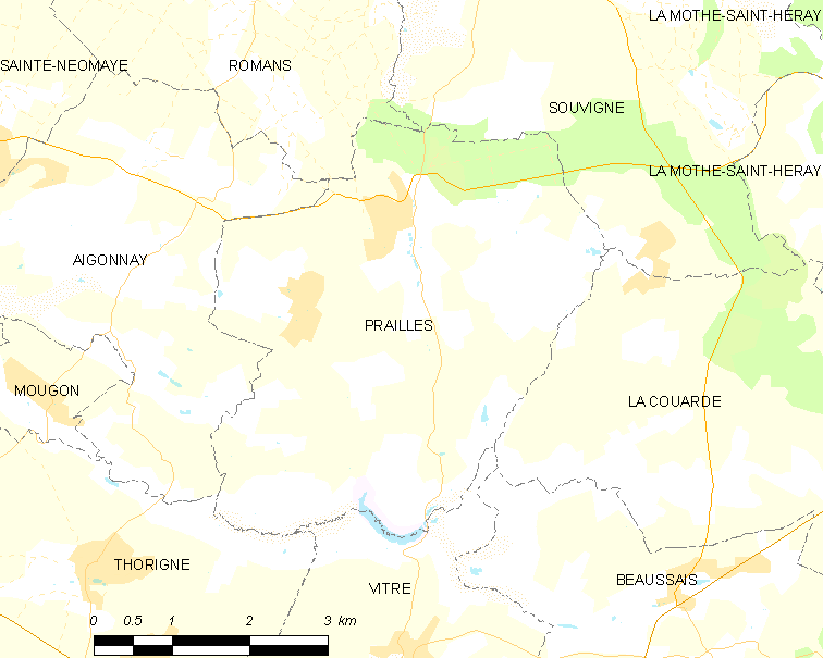 Map of French municipality Prailles